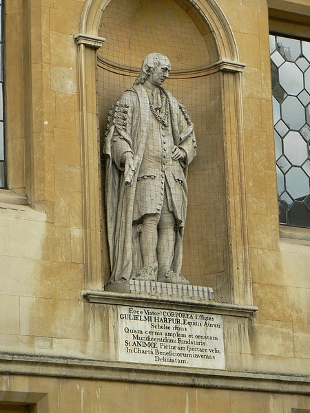 Statue of Sir William Harpur, old Town Hall, Bedford. See 1377986 for the location of the statue. And 1377988